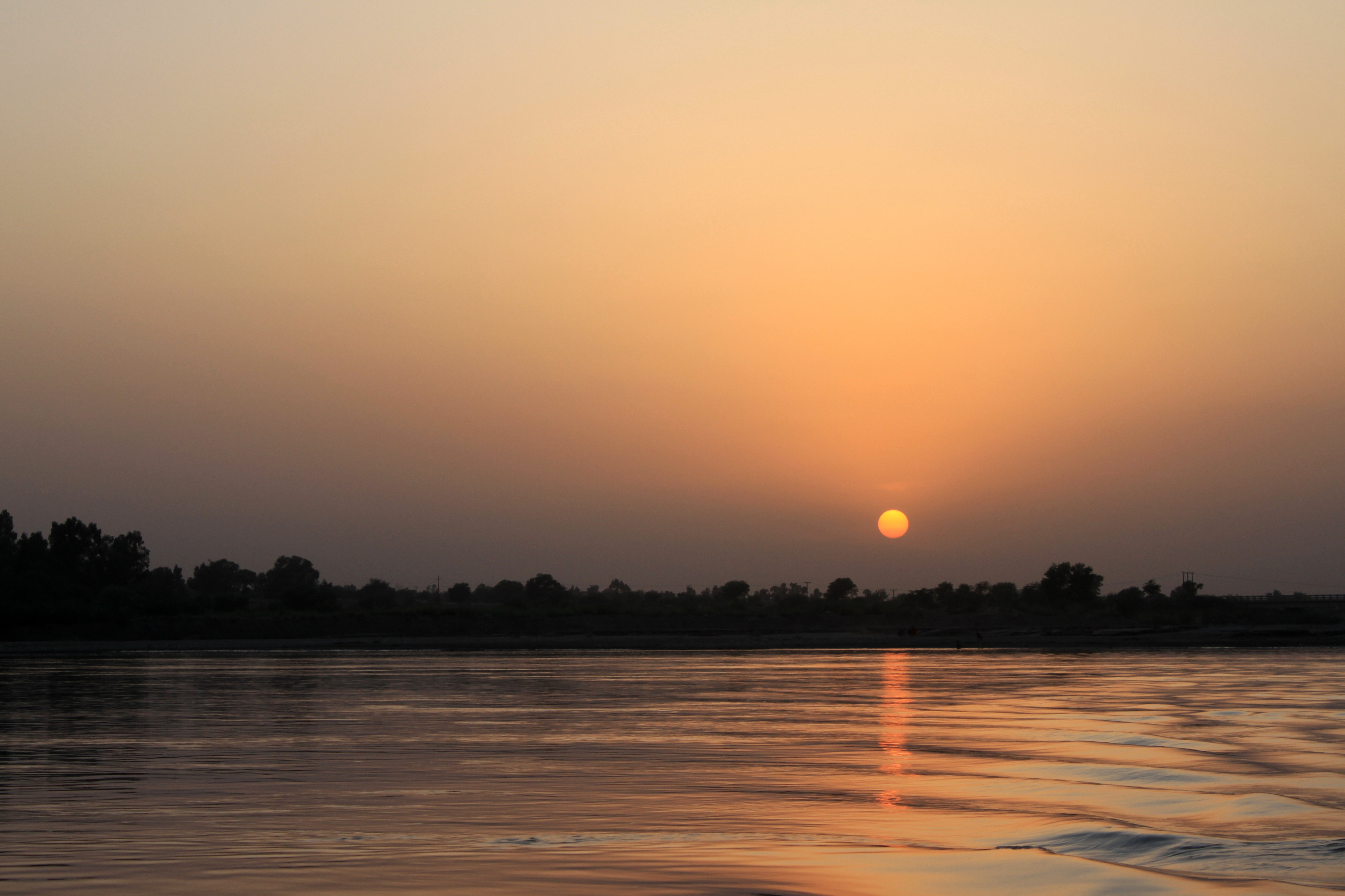 Taken from a motorboat on the Indus. Though the sky wasn't very clear, the sunset was beautiful.